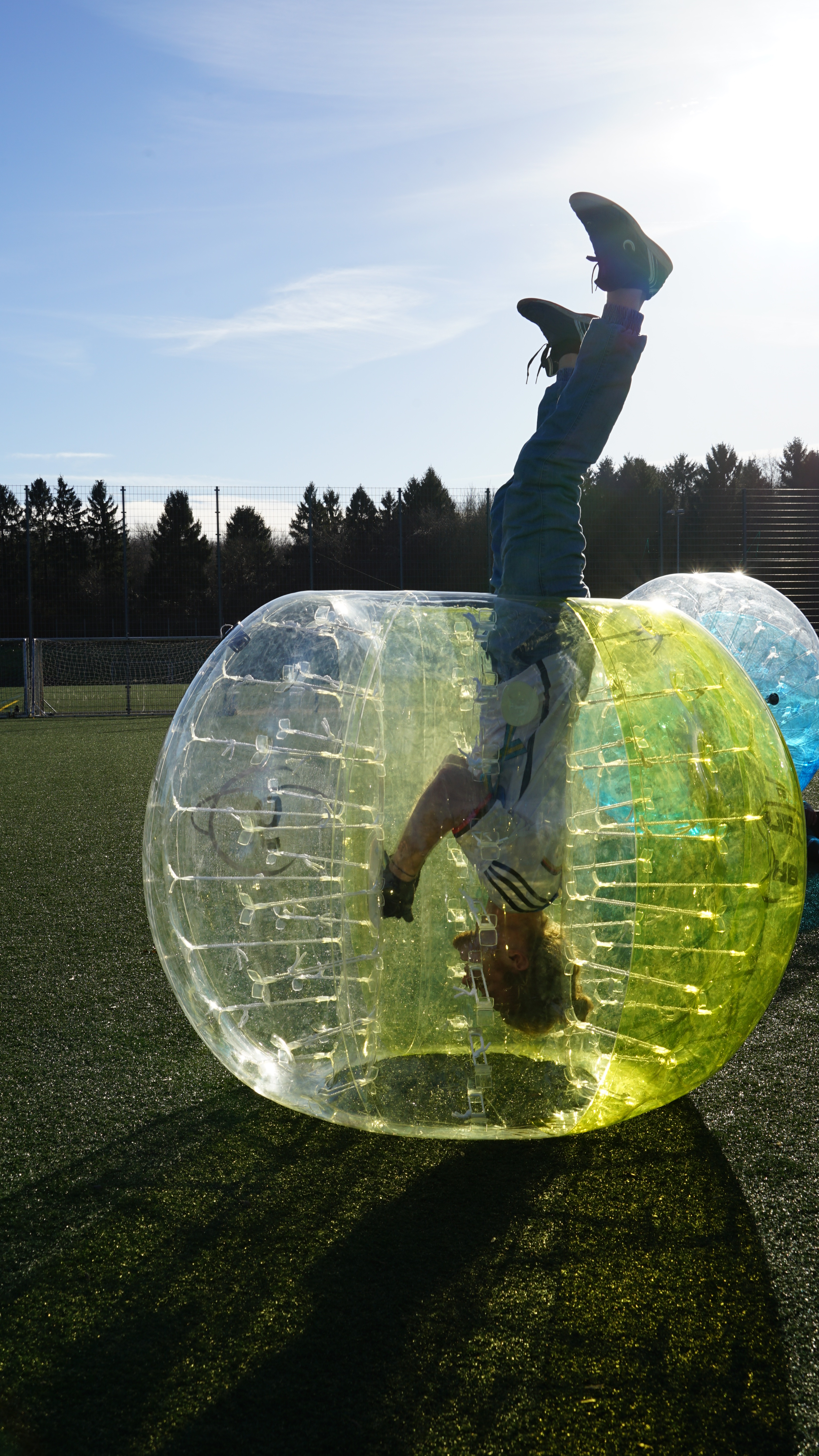 Bubbleball Hand- or Headstand